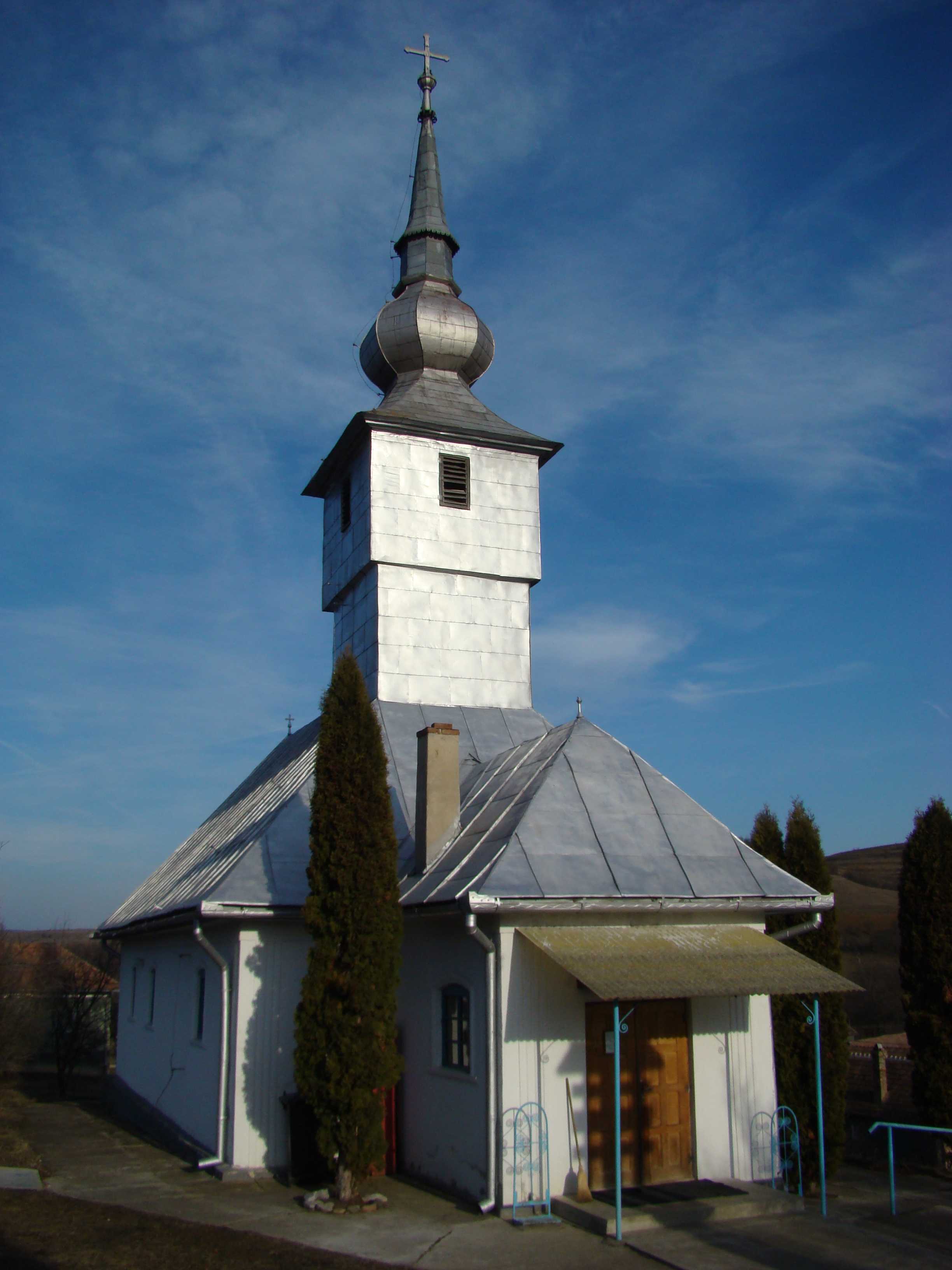 Filea de Jos, Cluj county, Romania